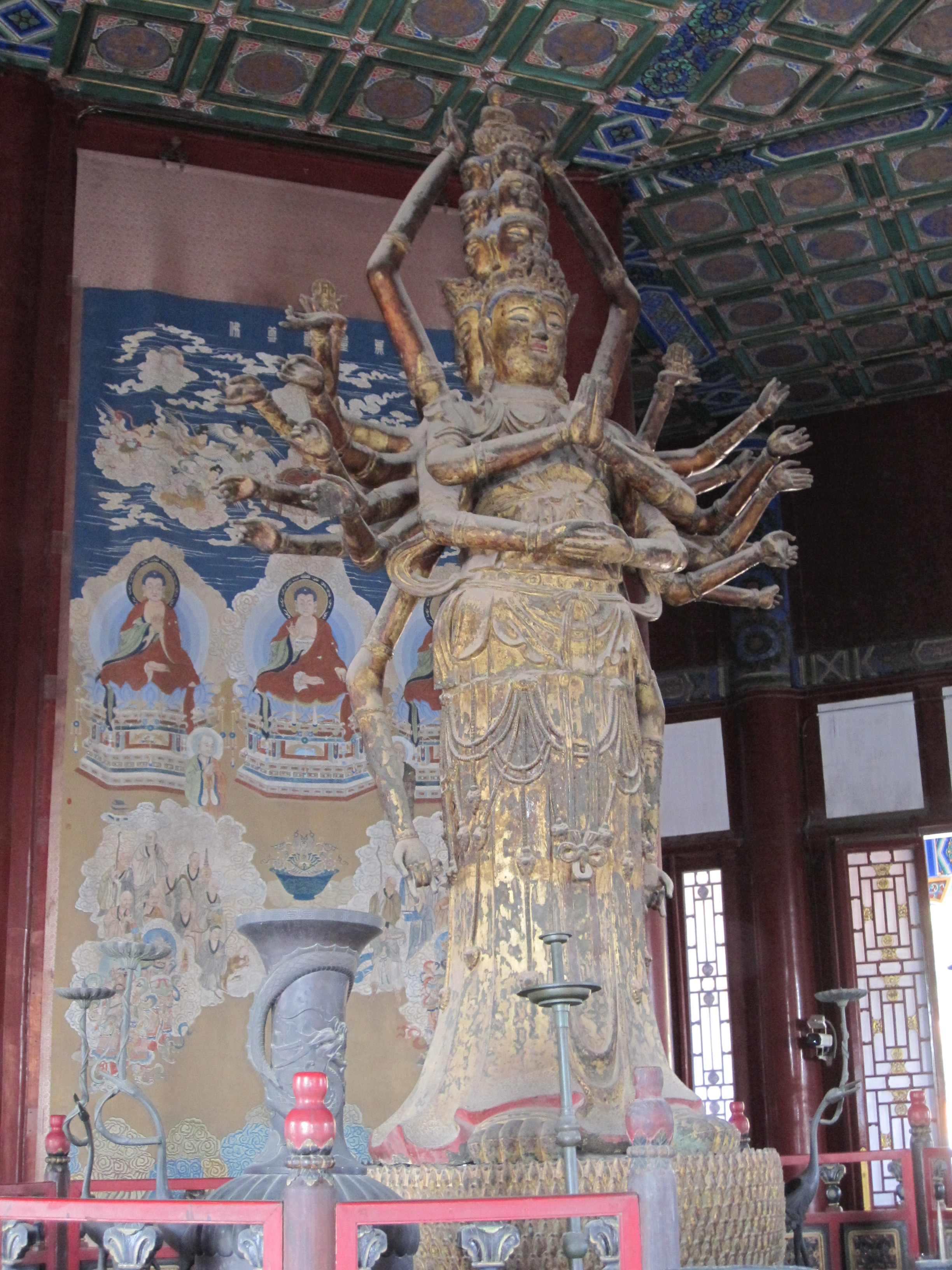 A statue of Guanyin inside the Tower of Buddhist Essence in the Summer Palace (Beijing, China). Cast in 1574 AD, 5 meters tall.